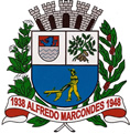 Picture of the Seal of Alfredo Marcondes City.